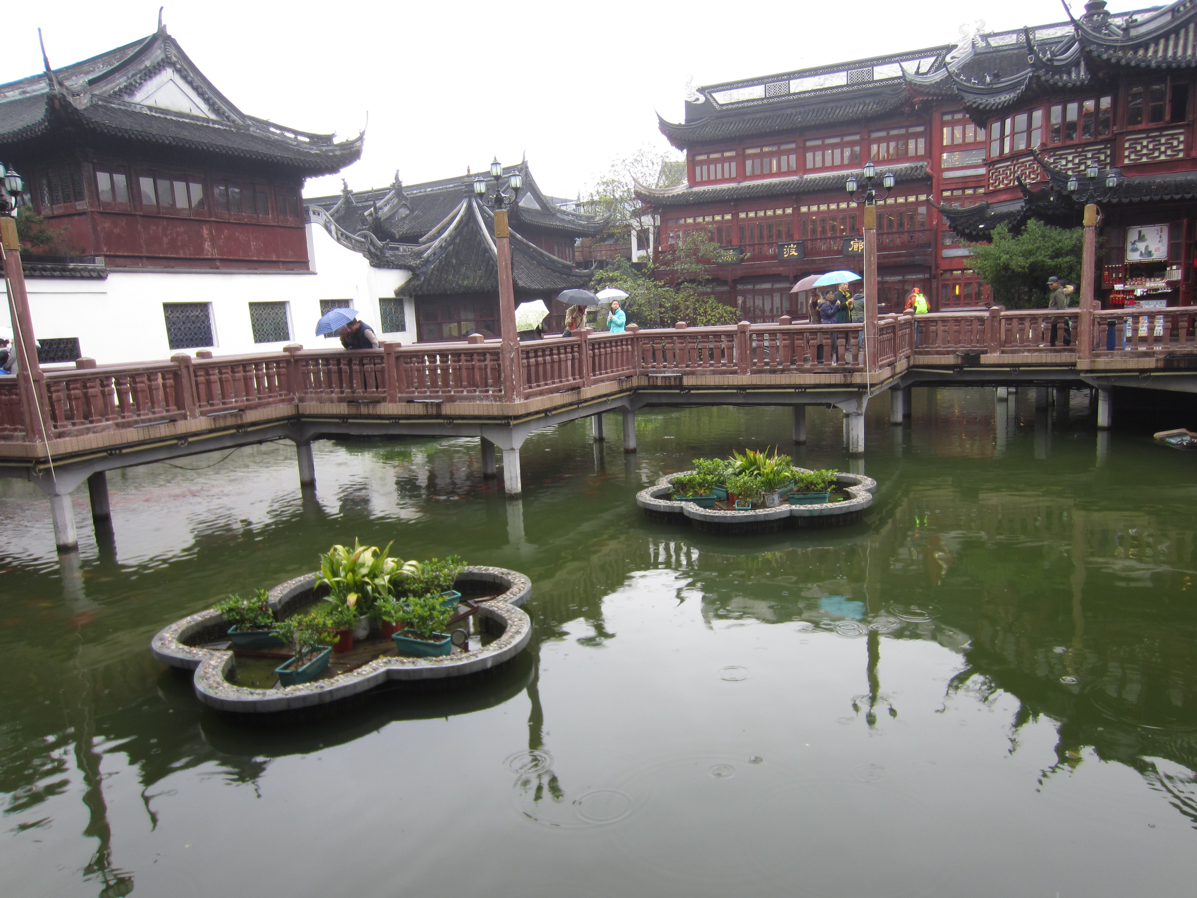 Shanghai, December 2015